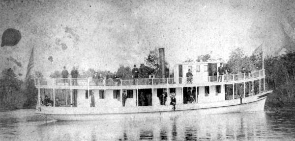 This image is number rc13686 at the Florida Photographic Collection. Below is its description there: [Steamboat "Walkatomica" loaded with passengers running on the waterway : Florida] [graphic] Leader: kmKa0c Fixed field data: khbz Fixed field data: 990921s1885 in d Local call number: Rc13686 Title: [Steamboat "Walkatomica" loaded with passengers running on the waterway : Florida] [graphic] Publication info: ca. 1885. Physical descrip: 1 photoprint : b&w ; 5 x 10 in. Series Title: (Reference collection) General Note: Built in Tallahassee by Capt. William P. Slusser. Begun in late January and February 1885. Inspected June 13, 1885 and put on flat cars of the Florida Railway & Navigation Co. for the 3 1/2 hour trip to the coast. Launched June 18, 1885. She met the train from Tallahassee to St. Marks and made regular runs to Newport, Carrabelle and St. Teresa. Cost for a round trip ticket for train and steamer was $2.25. Burned October 4, 1898. Corporate subject: Walkatomica (Steamboat) Subject term: Steamboats. Subject term: Passengers (Boats) Subject term: Waterways--Florida. Geographic term: Florida.